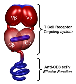 Schematic diagram of ImmTAC molecule showing engineered TCR targeting system to anti-CD3 scFv effector function